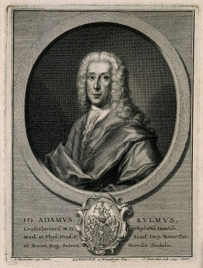 Johann Adam Kulm(us)